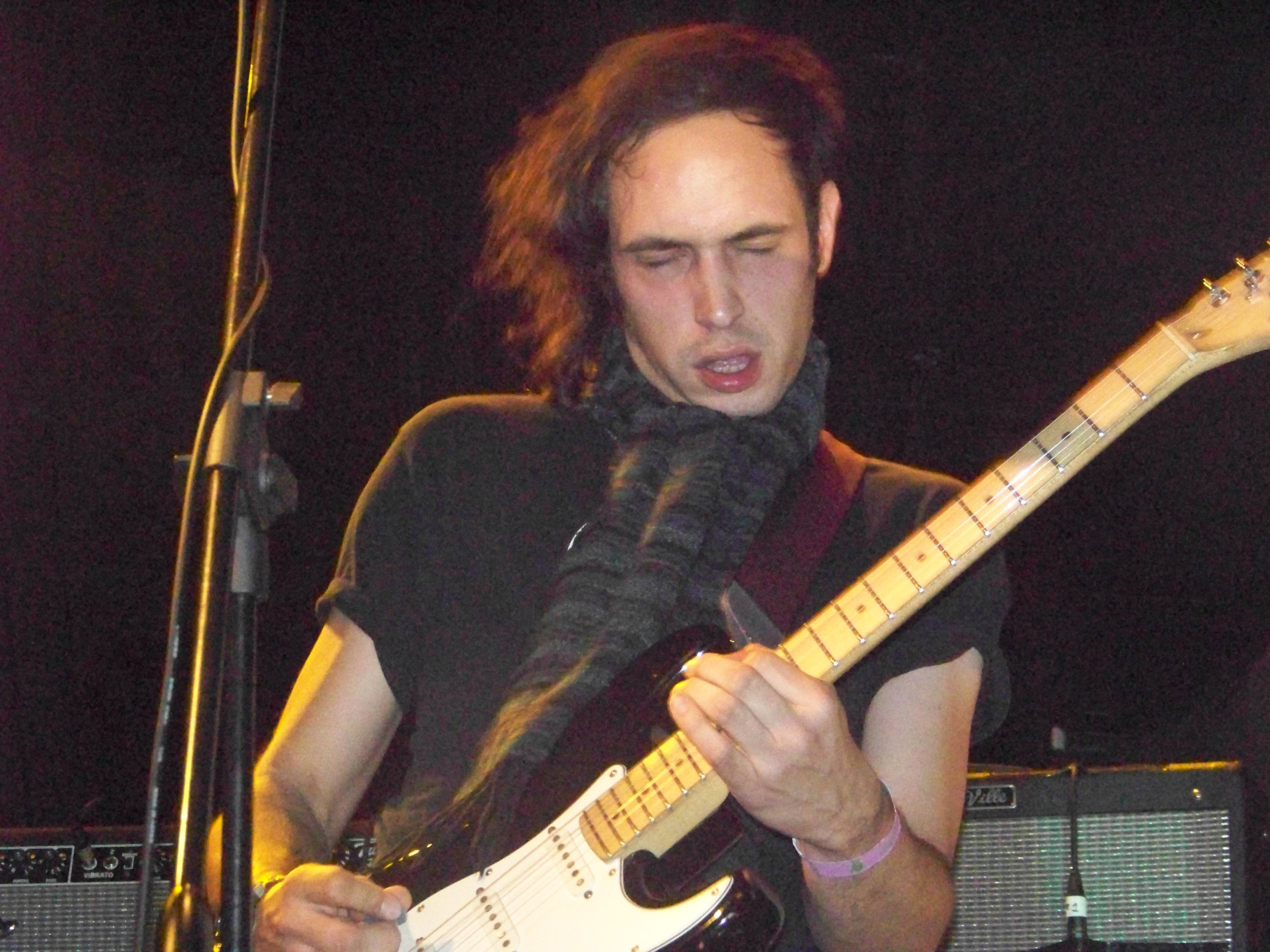 Musician Dan Smith performing in Atlanta, Georgia.